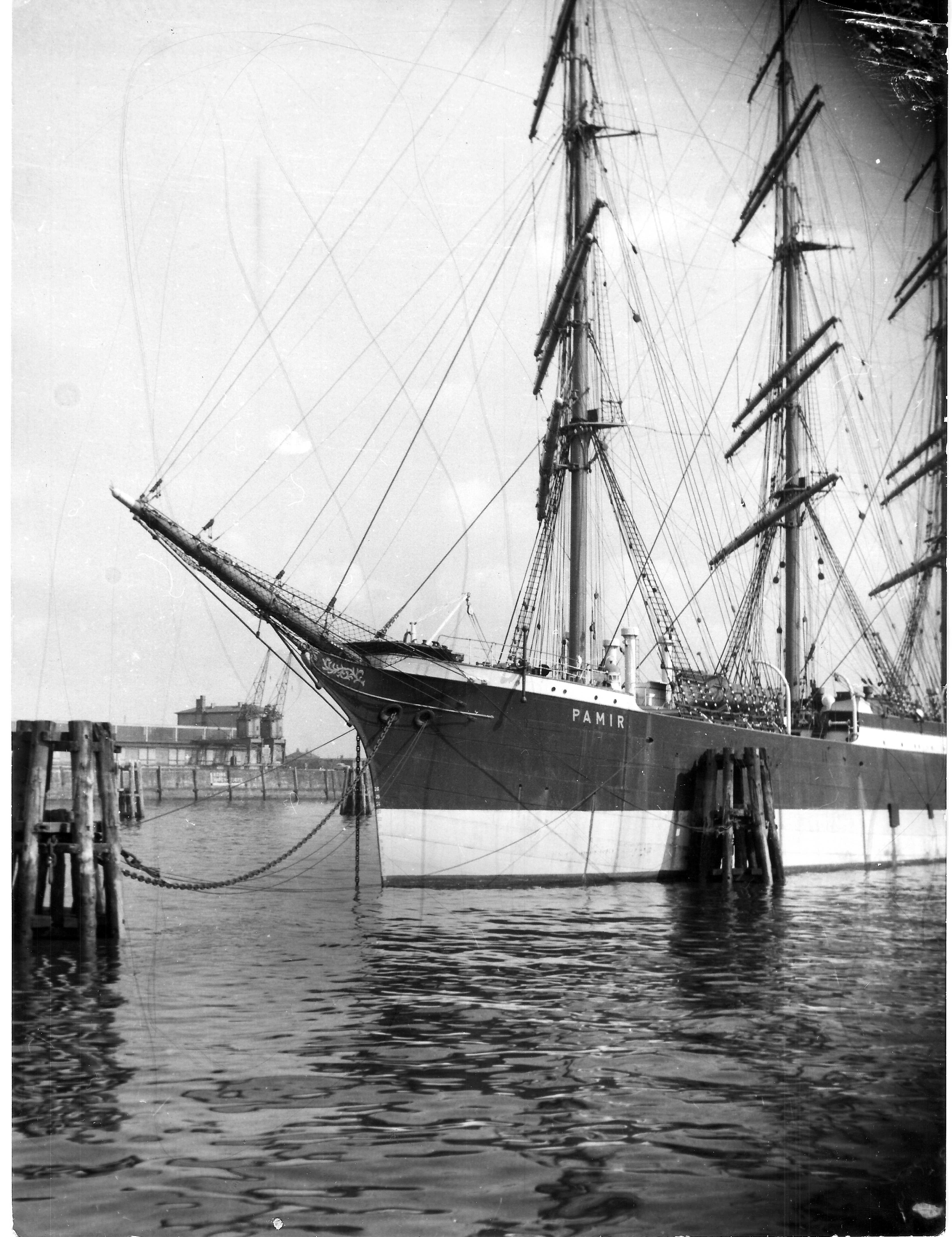 Barque Pamir May/June 1953 in Hamburg.